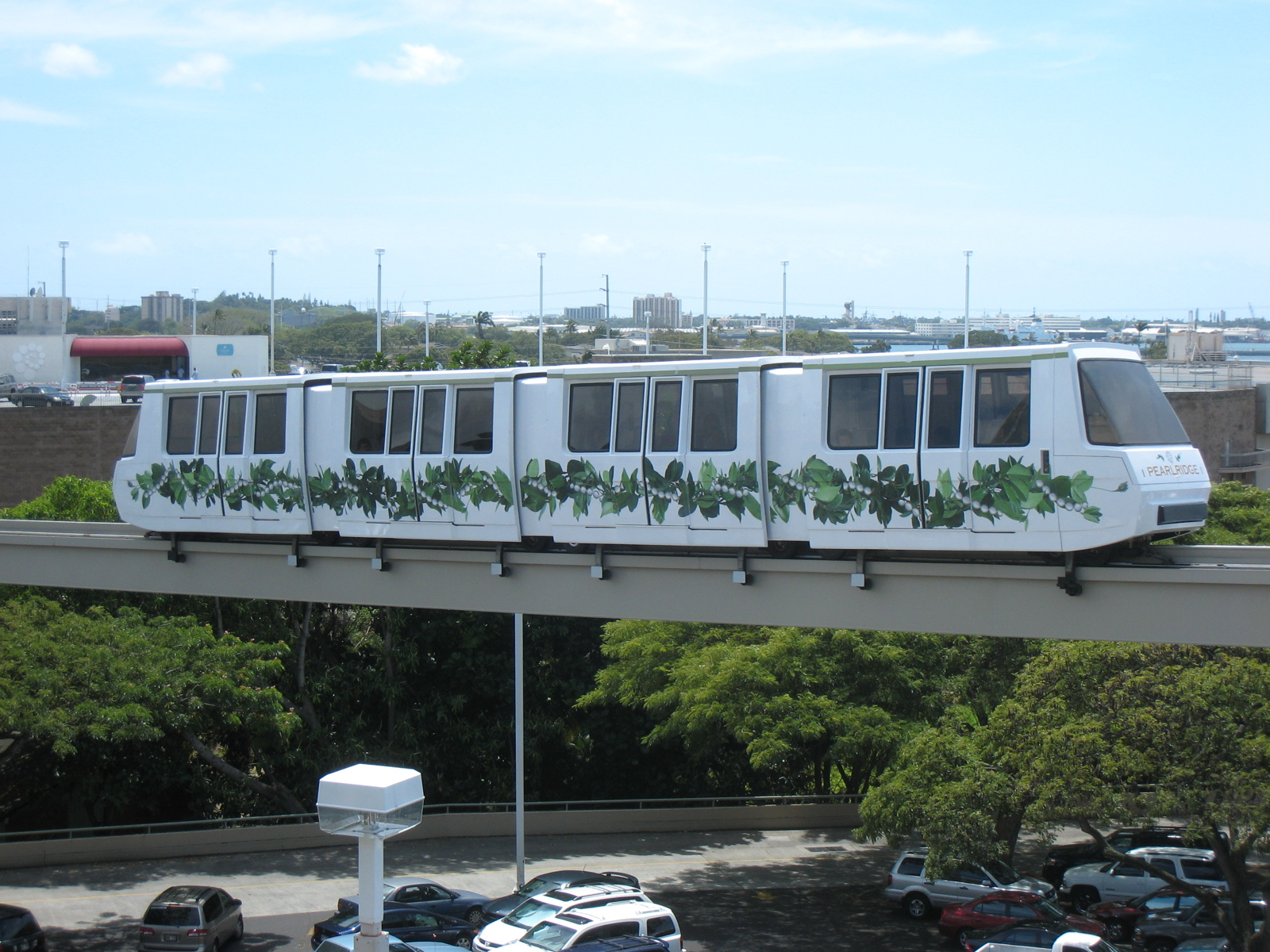 Photograph of the monorail at Pearlridge Center in Aiea, Hawaii, United States.